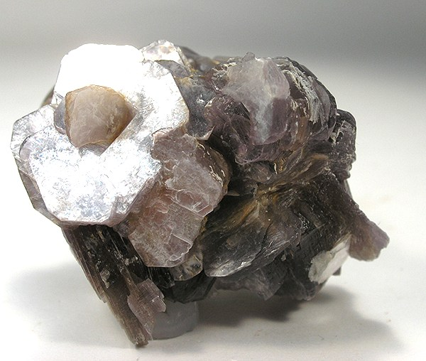 Lepidolite Locality: Little Three Mine (Little 3), Ramona District, San Diego County, California, USA (Locality at ) Size: miniature, 5 x 4 x 3.5 cm Lepidolite Just a really nice reference specimen of classic ol' purply lepidolite! 5 x 4 x 3.5 cm